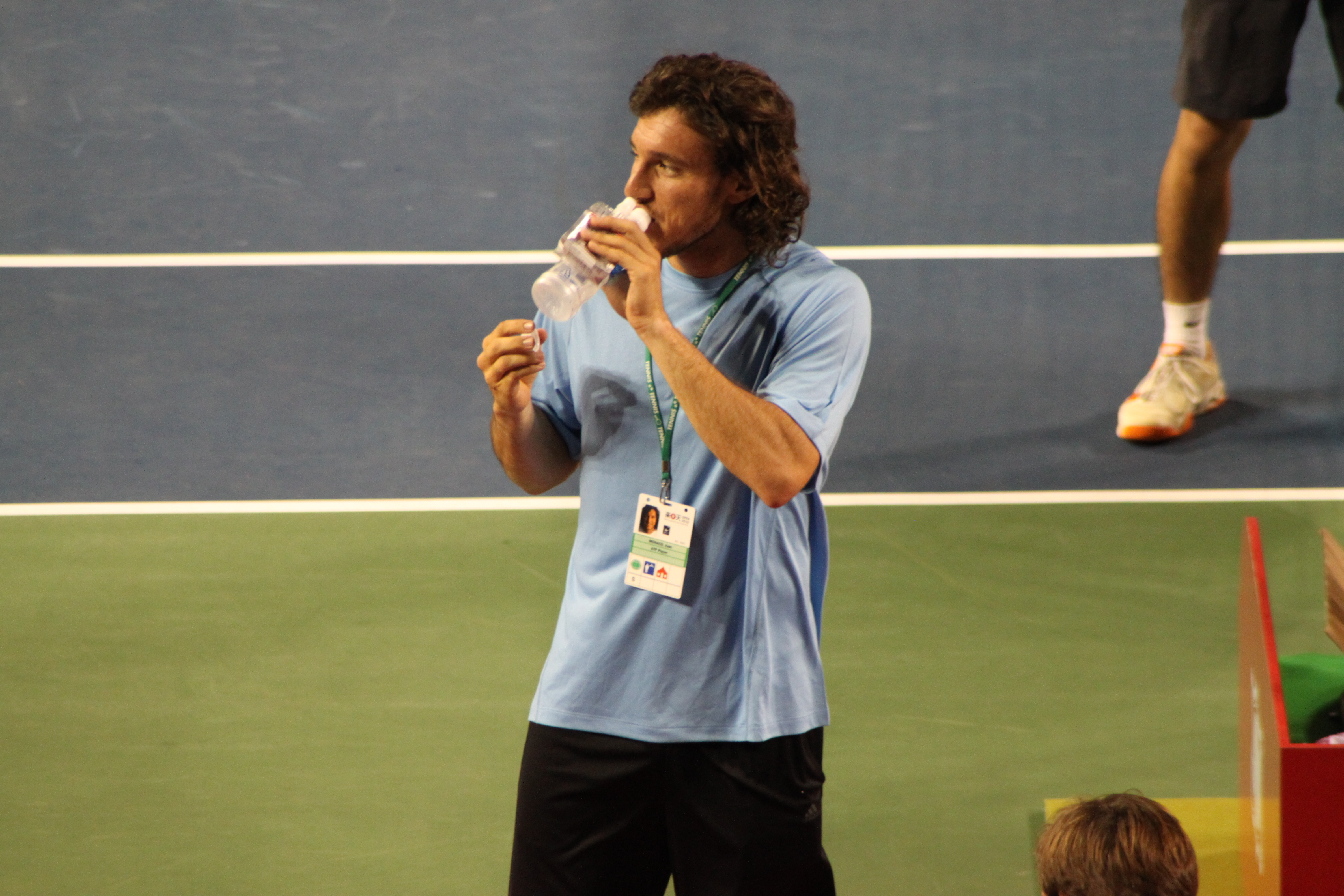 Juan Mónaco at 2010 Rakuten Japan Open Tennis Championships, Tokyo, Japan